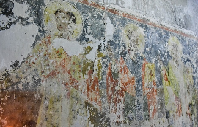 Fresco in Saint Paraskevi Church in Kolchiko Balevets